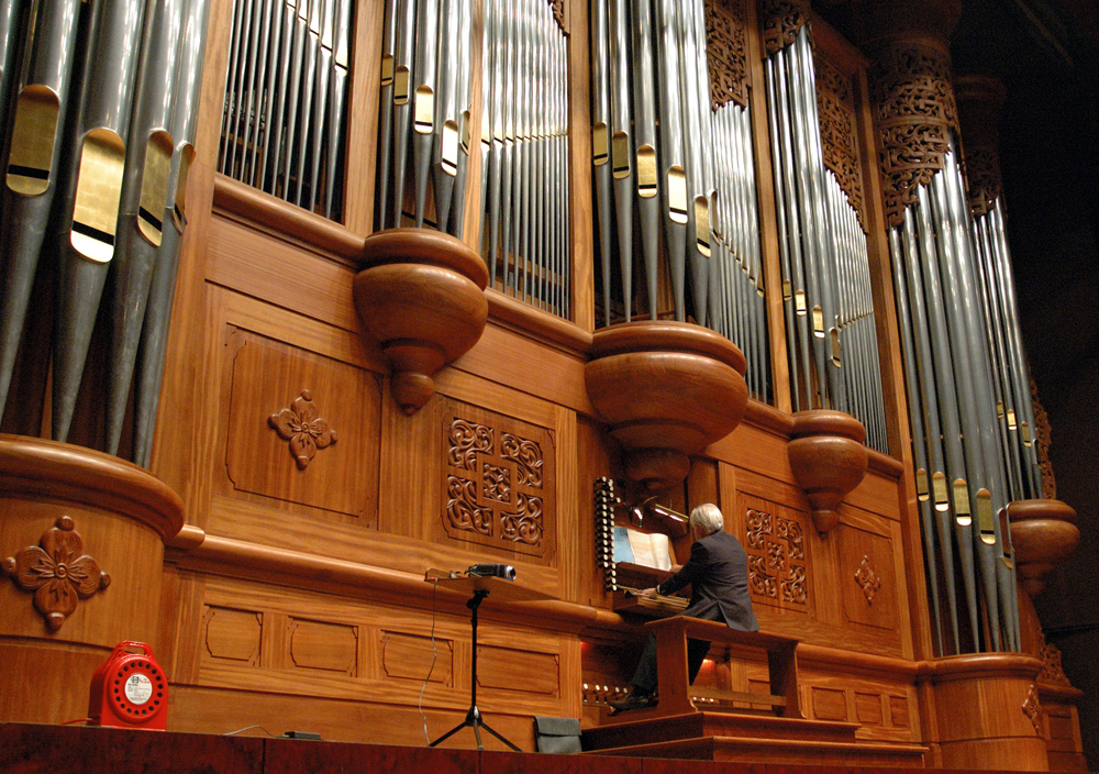 A visiting organist in Taiwan's National Concert Hall in Taipei. Photo: Alton Thompson